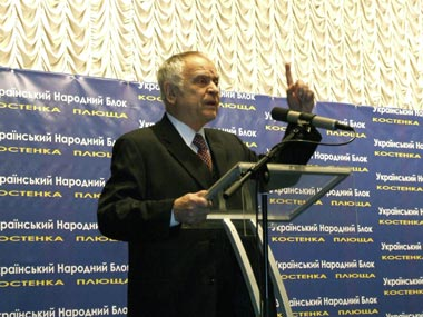 Dmytro Pavlychko, Ukrainian writer, during the congress of Ukrainian People's Block of Kostenko and Plyusch